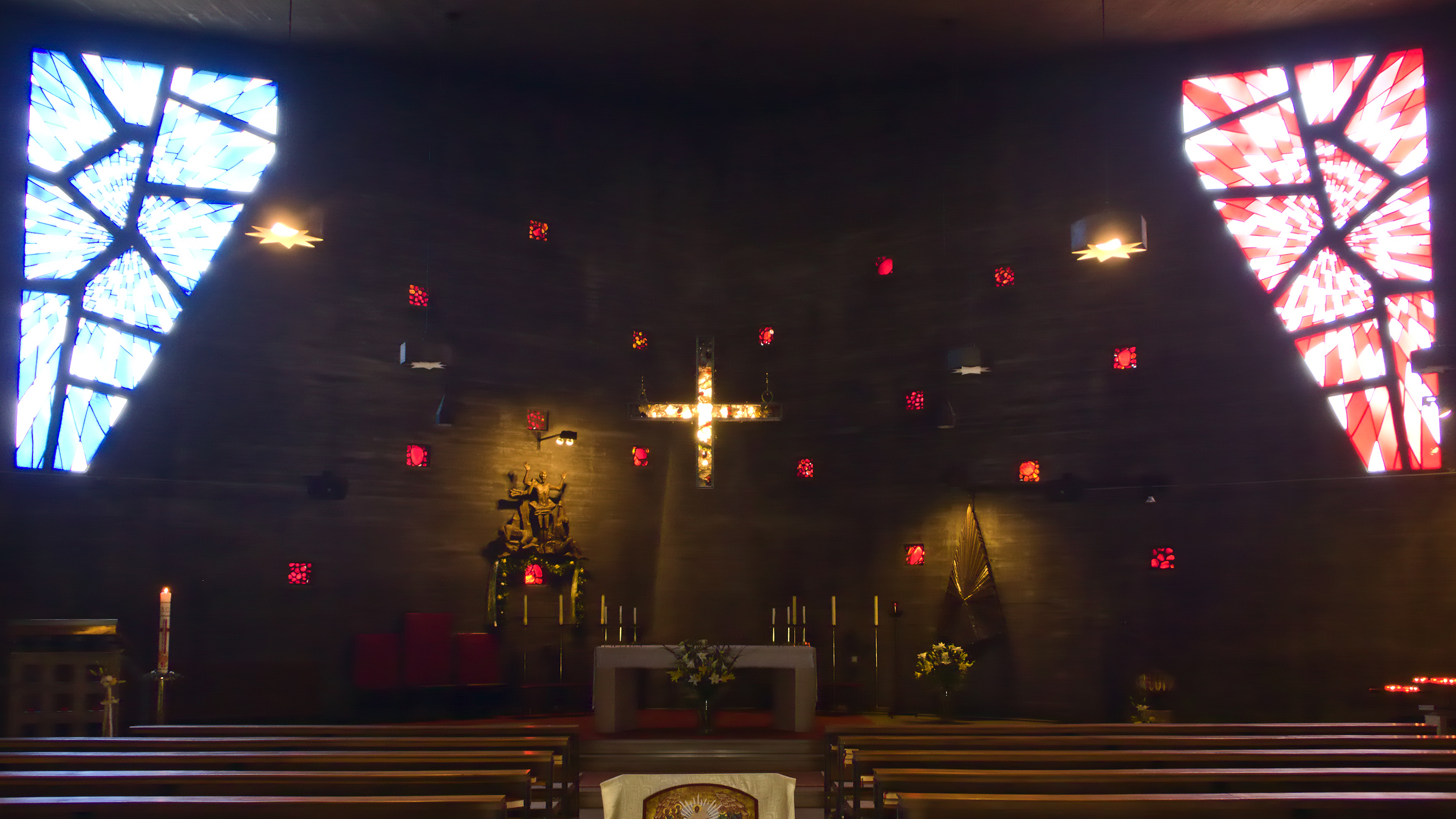 Church Pfarrkirche Zum Guten Hirten (Wien) in Vienna Hietzing